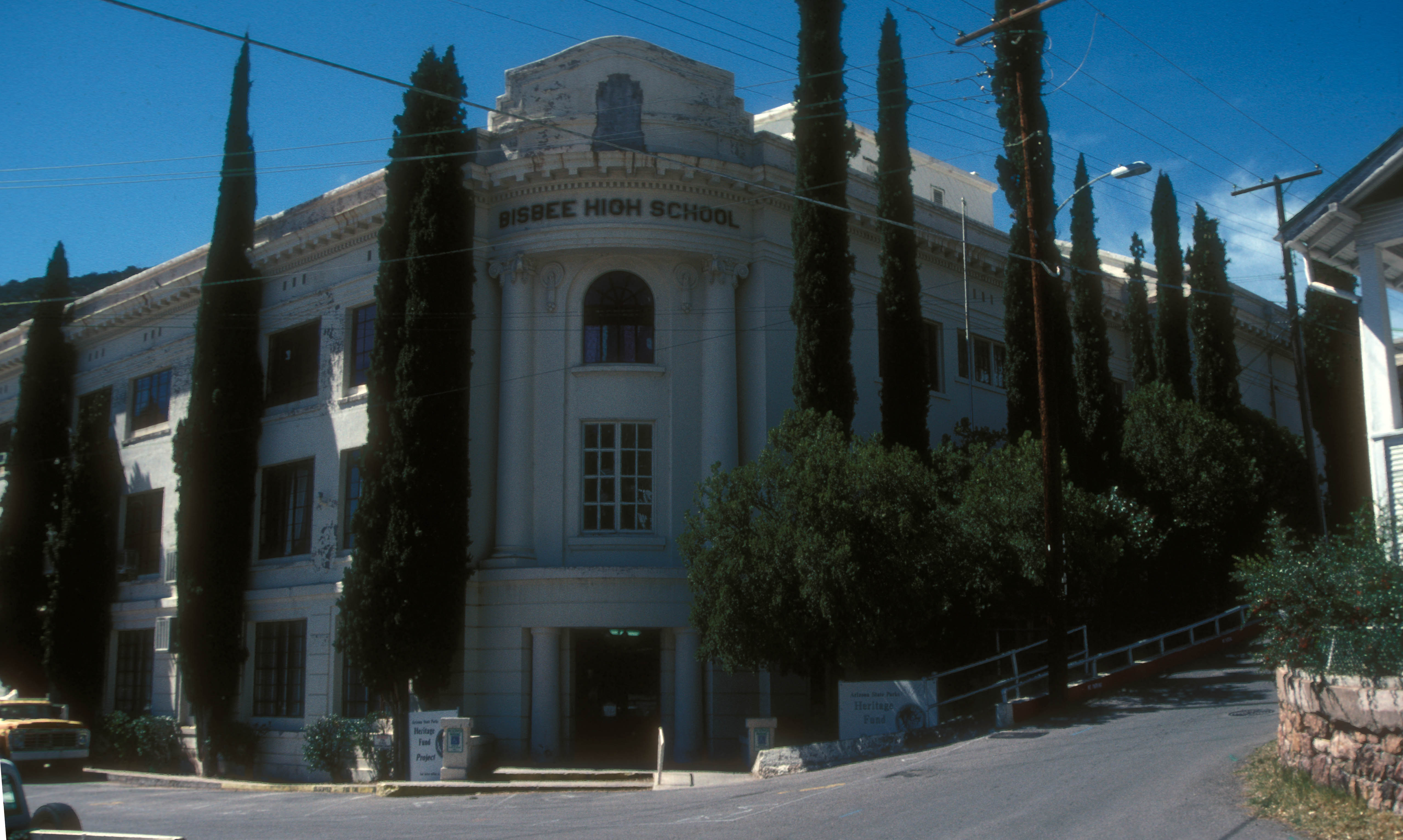 BISBEE HIGH SCHOOL. The TOWN IS SO HILLY THAT EACH FLOOR OF THE SCHOOL HAS A GROUND LEVEL ENTRANCE. Possibly in the Bisbee Historic District